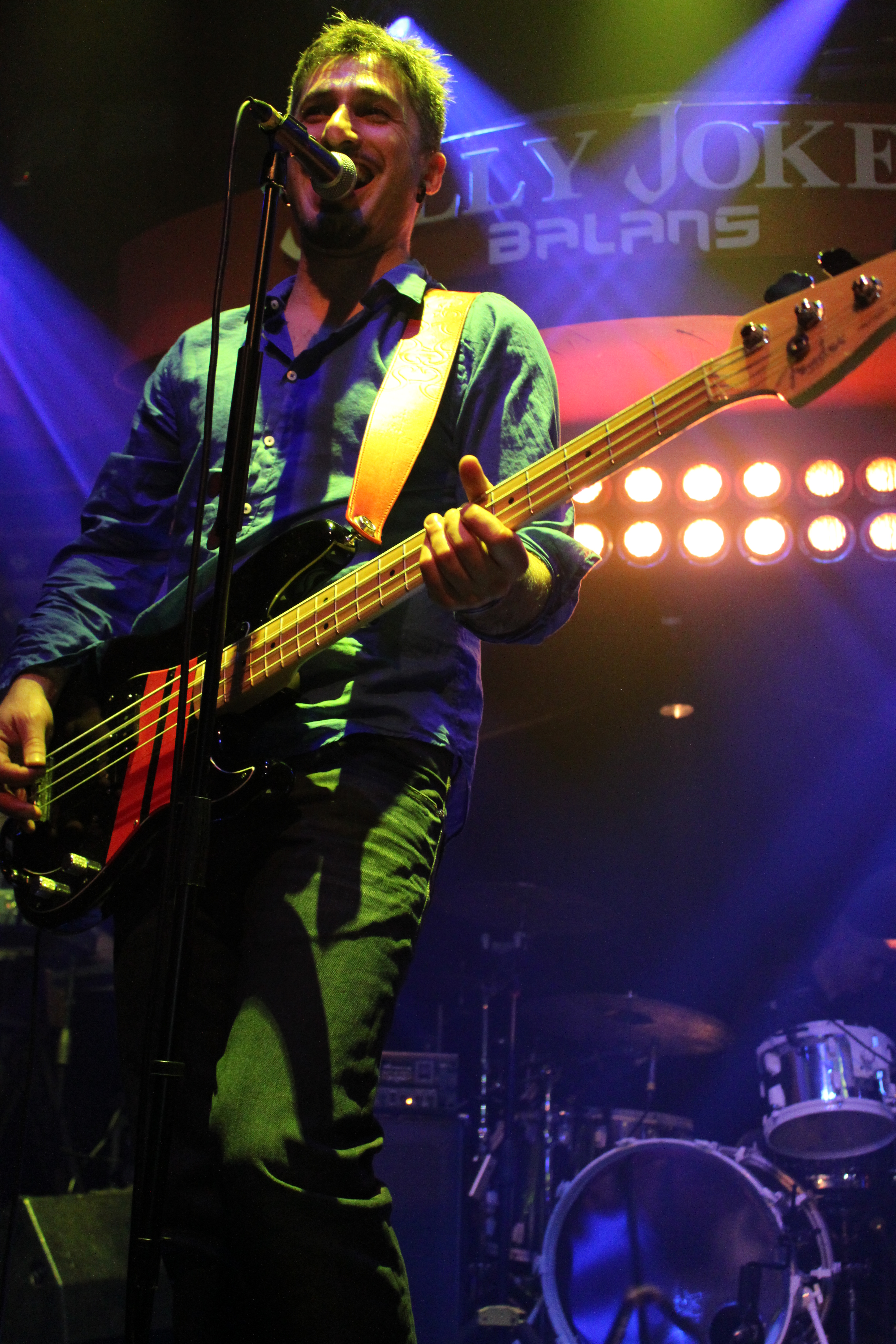 Doğan Duru in Jolly Joker Balans.